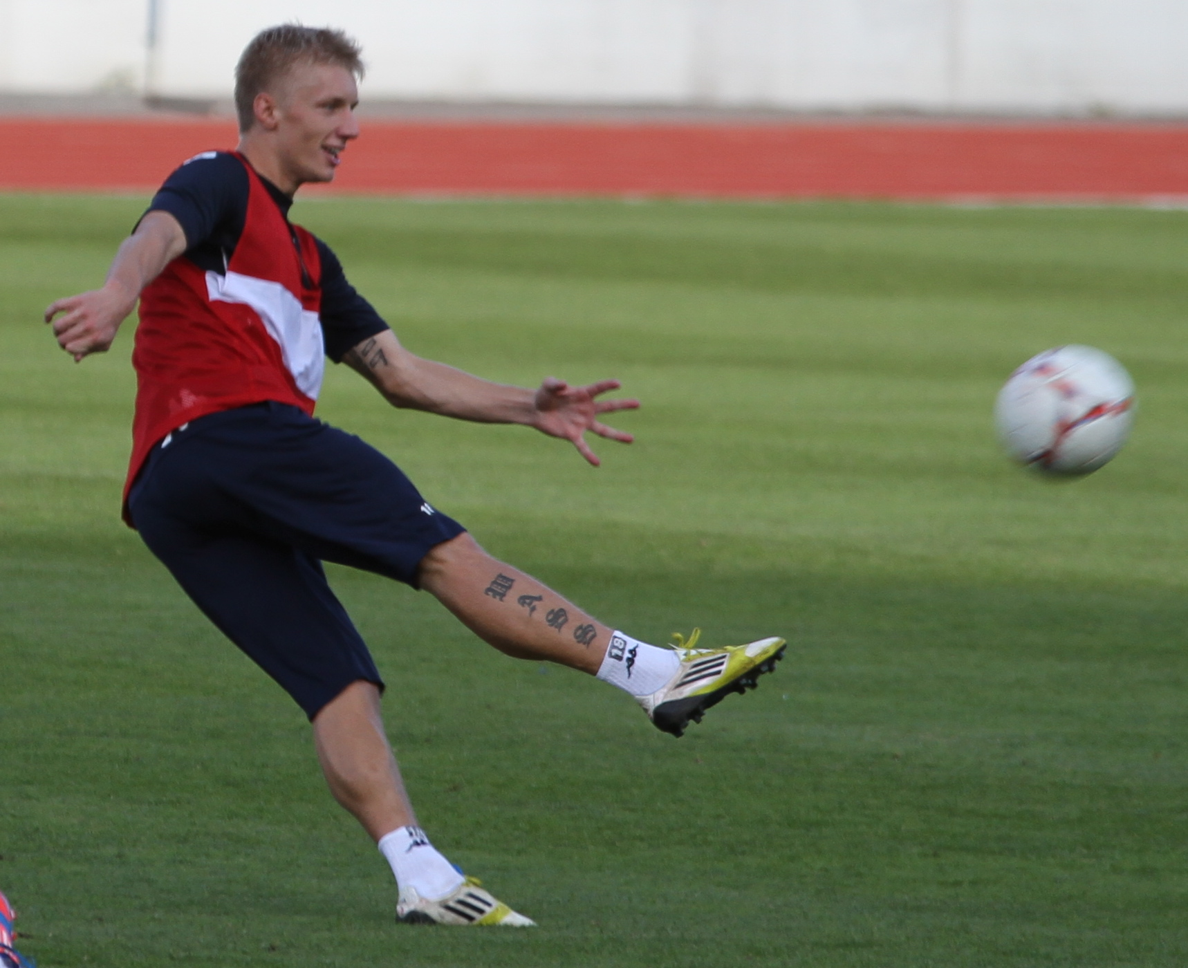 Daniel Wass